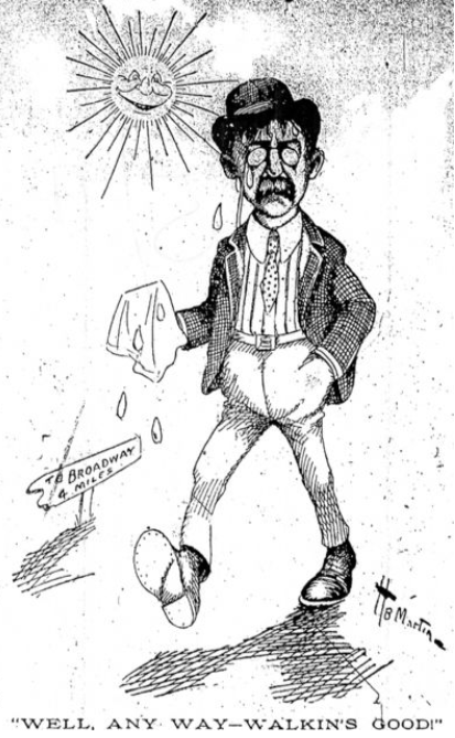 Political cartoon of businessman walking in the sun and sweating during the beginning of the St. Louis streetcar strike of 1900. Caption says: "Well any way -- Walkin's good".